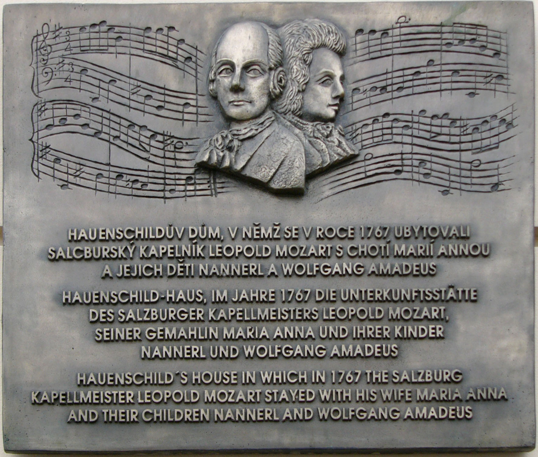 Memorial plaque dedicated to Leopold Mozart and Wolfgang Amadeus Mozart at Hauenschild's house in Dolní náměstí square in Olomouc, the Czech Republic. Author of plaque: Vojtěch Směšný. Festive installation in 5 December 2001.